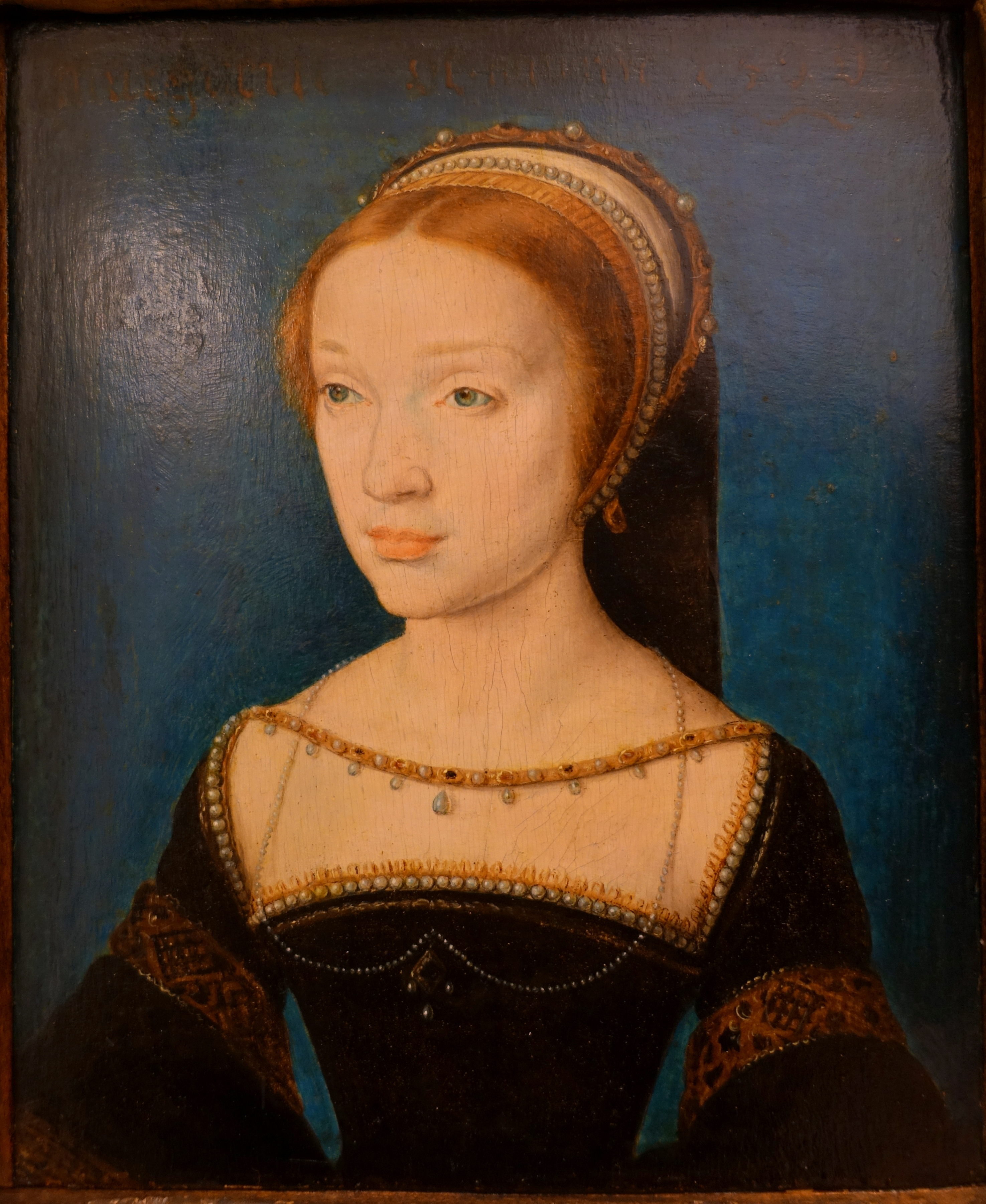 Exhibit in the Bode-Museum, Berlin, Germany. This work is in the public domain because the artist died more than 100 years ago.